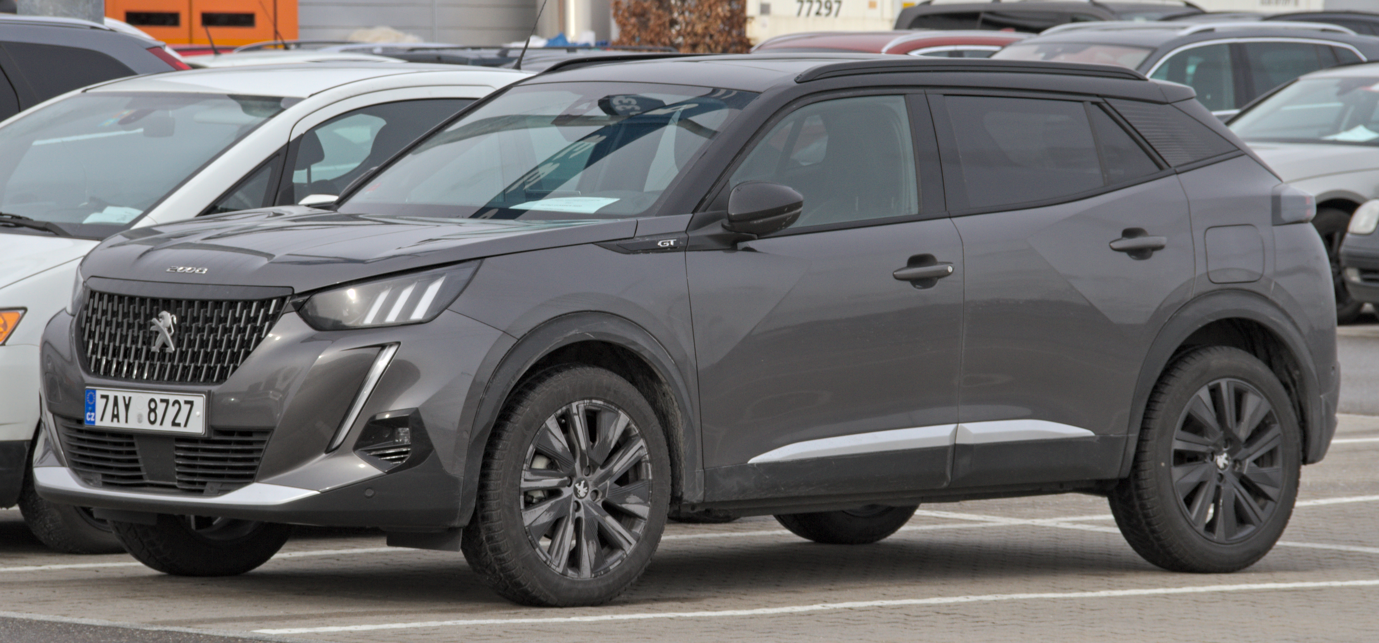 Peugeot_2008_B at Retro Classics 2020